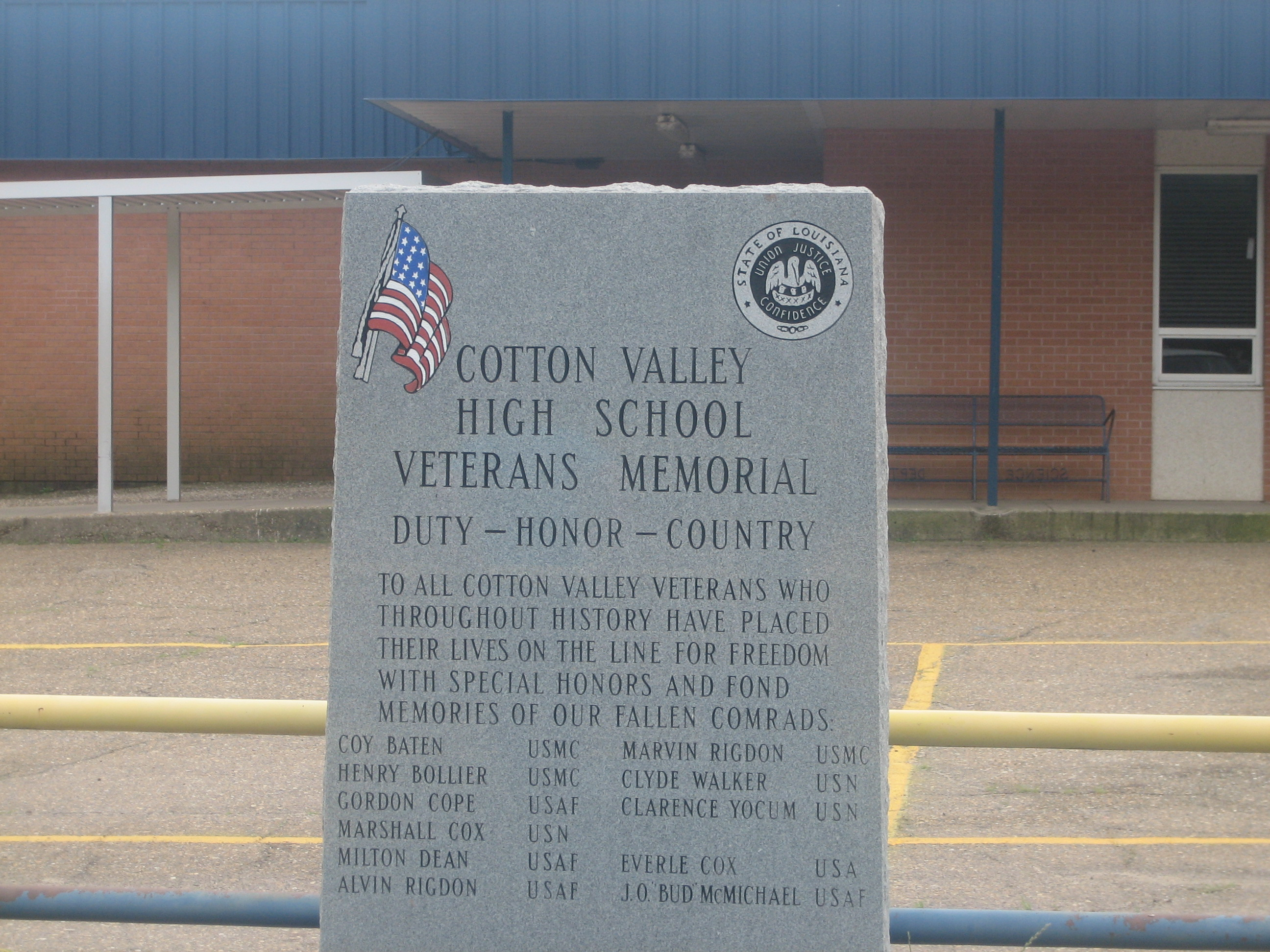 I took photo on May 22, 2009.Billy Hathorn (talk) 19:18, 29 May 2009 (UTC)